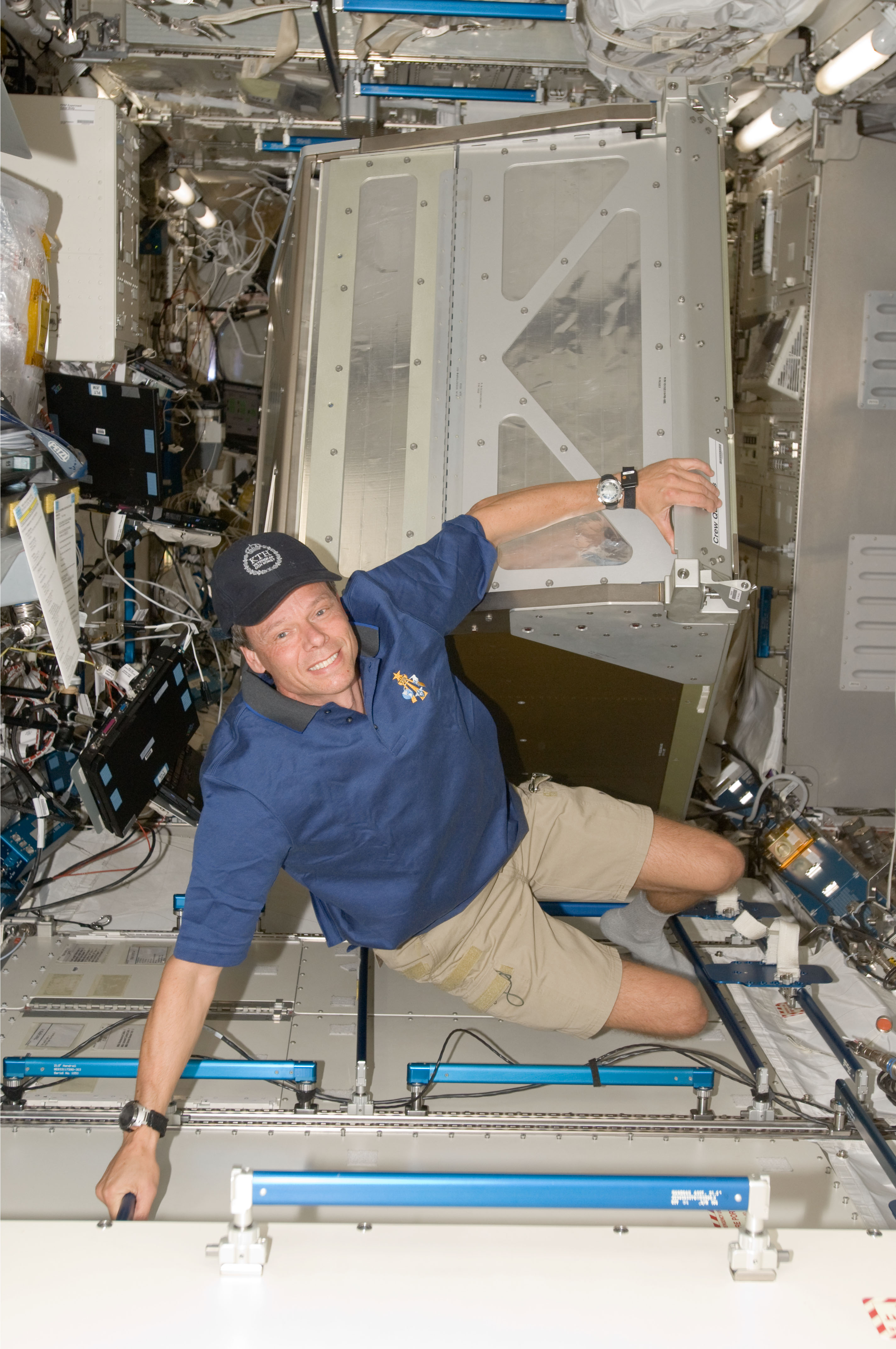 European Space Agency astronaut Christer Fuglesang, STS-128 mission specialist, prepares to install a new crew quarters compartment in the Kibo laboratory of the International Space Station while Space Shuttle Discovery remains docked with the station.